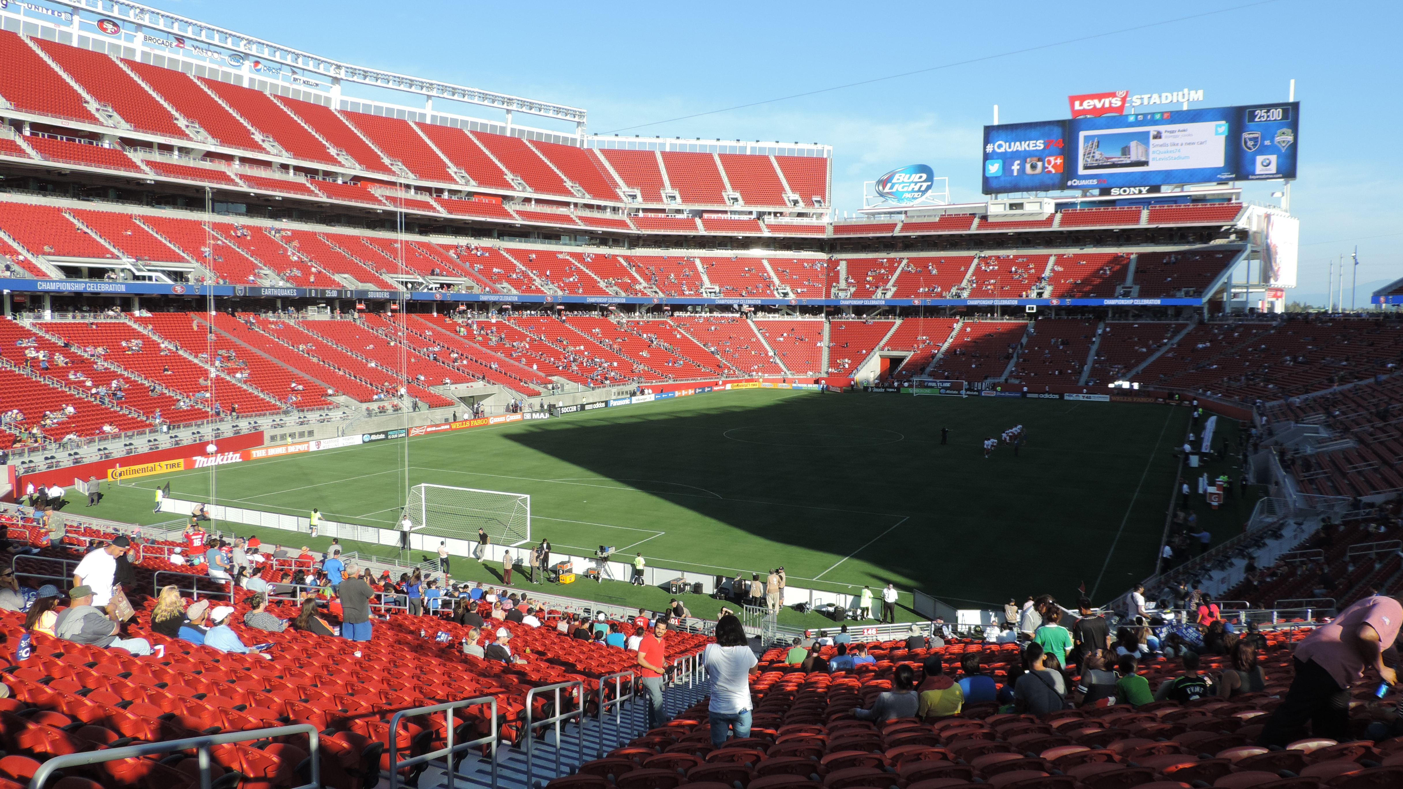 A view of Levi's Stadium on August 2nd, 2014 during its Inaugural Sporting Event. The San Jose Earthquakes played versus the Seattle Sounders and won.